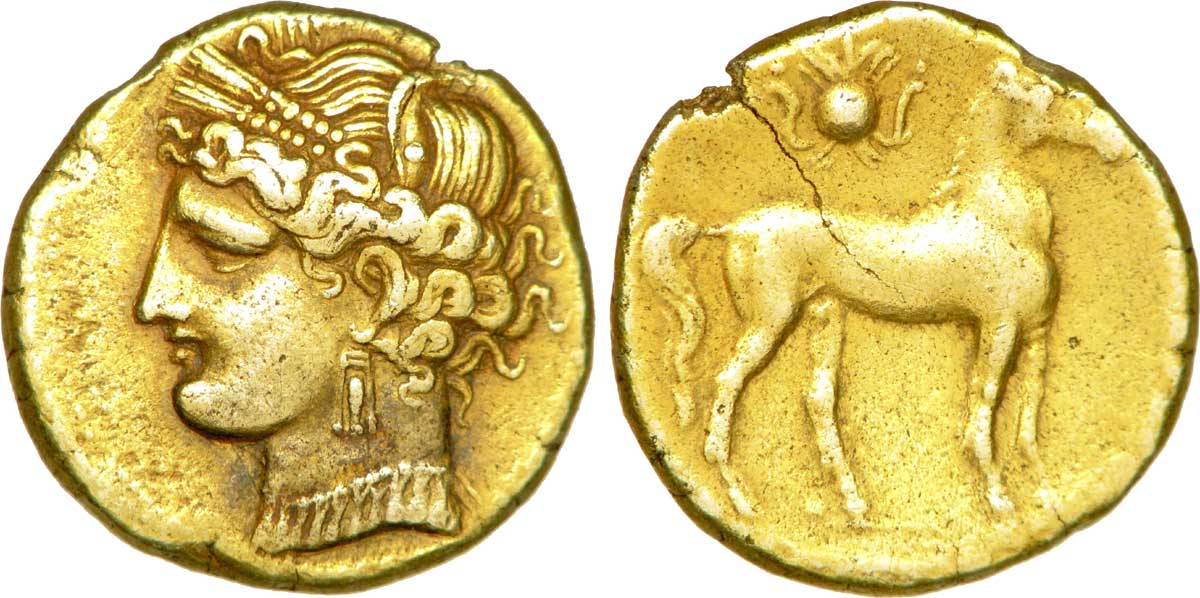 Trihémistatère, tridrachme en électrum . Date : c. 264-241 AC. Nom de l'atelier/ville : Zeugitane, Carthage